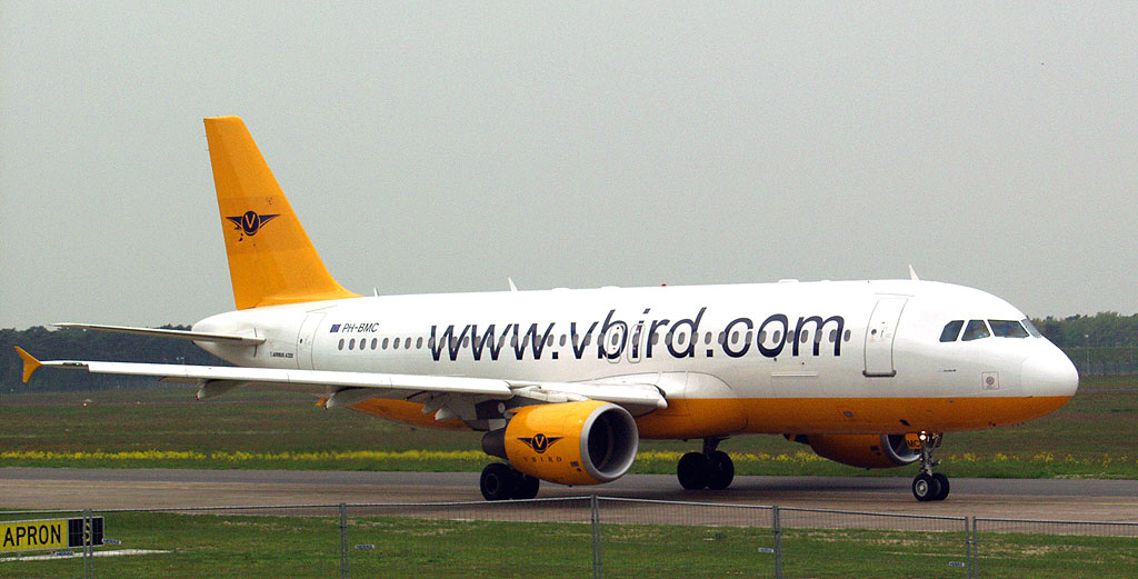 Airbus A320-214 - V Bird at Airport Niederrhein